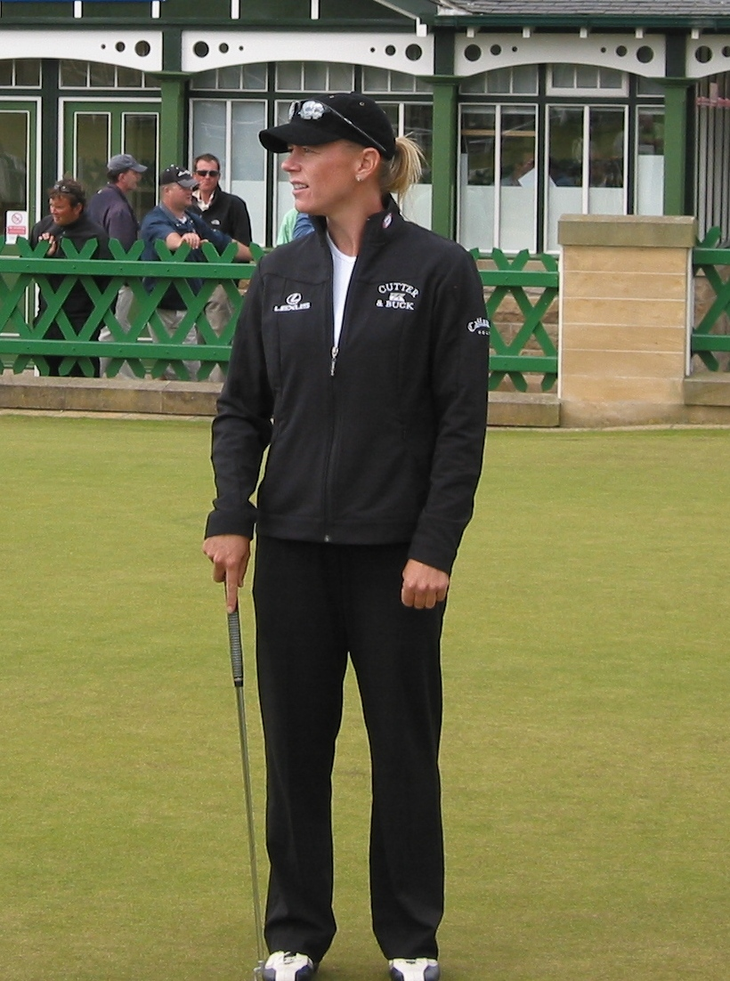 Annika Sorenstam on the practice green at St. Andrews in 2007